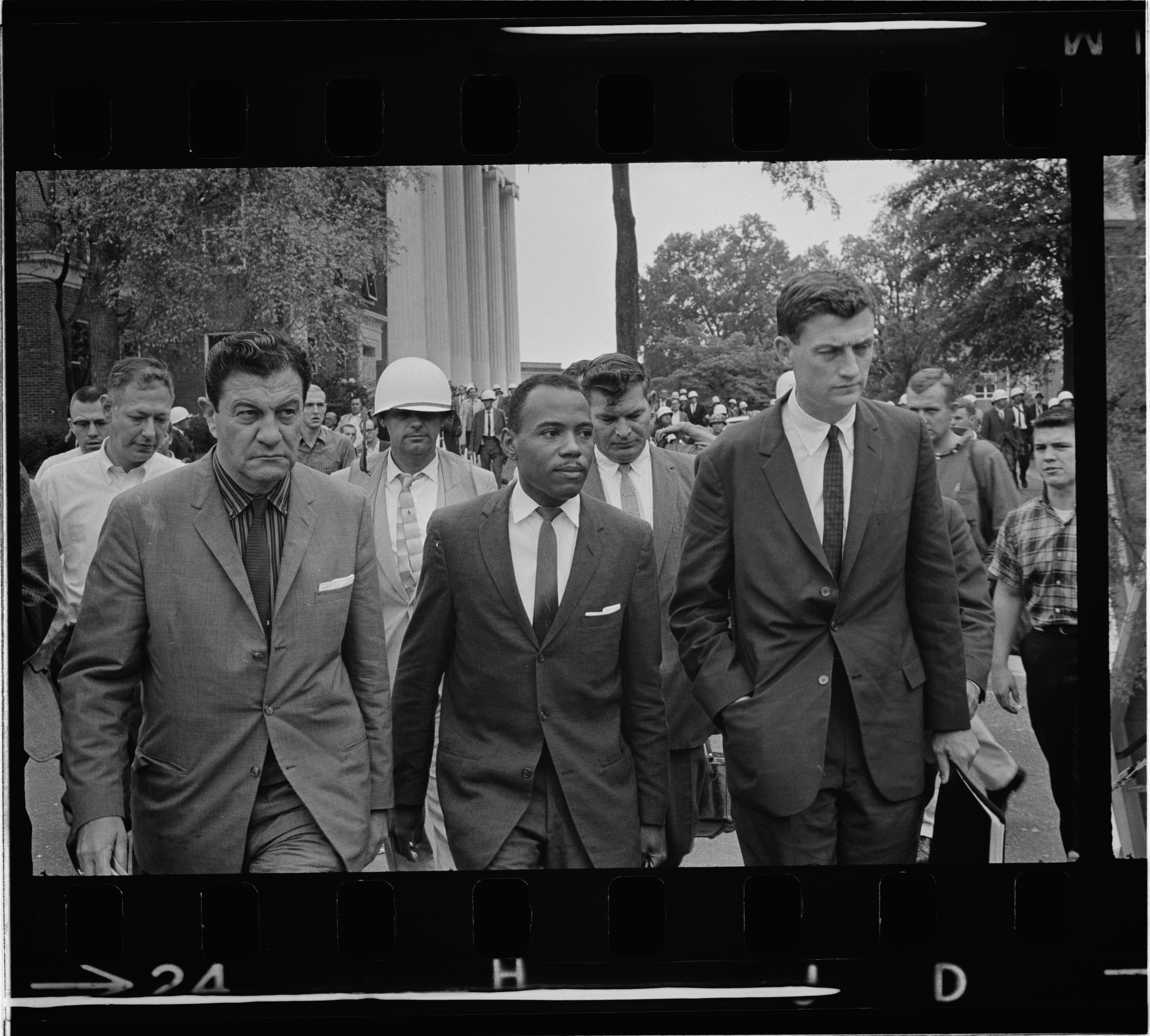 Photograph shows James Meredith walking to class accompanied by U.S. marshals.; James Meredith walking to class at University of Mississippi, accompanied by U.S. marshals. According to the men flanking Meredith are U.S. Marshal James McShane (left) and John Doar of the Justice Department (right)